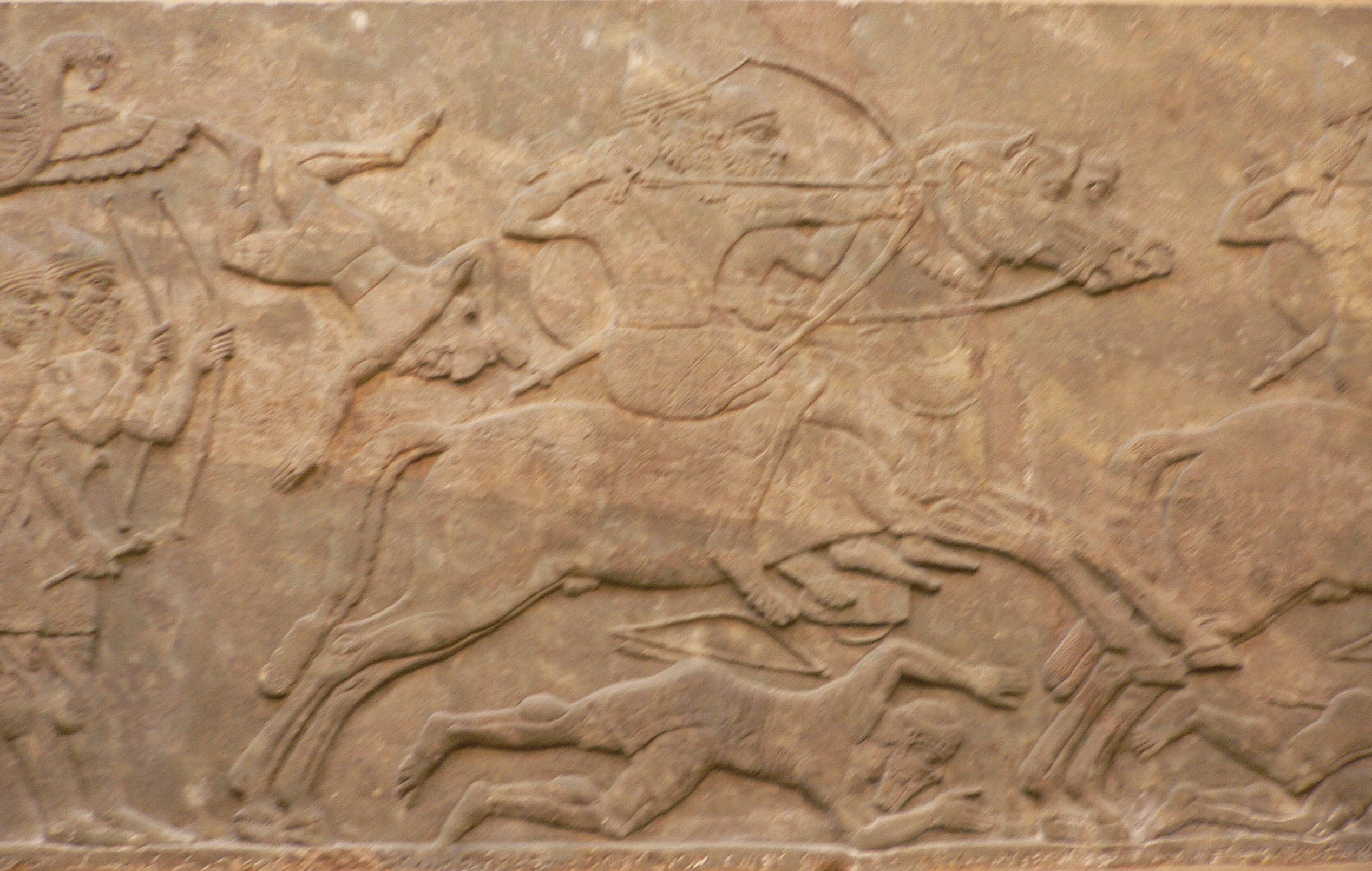 Assyrian Cavalry - photograph of British Museum reliefs by Iglonghurst 09:51, 14 October 2006 (UTC)